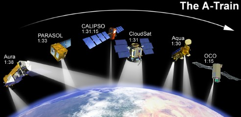 The A-Train